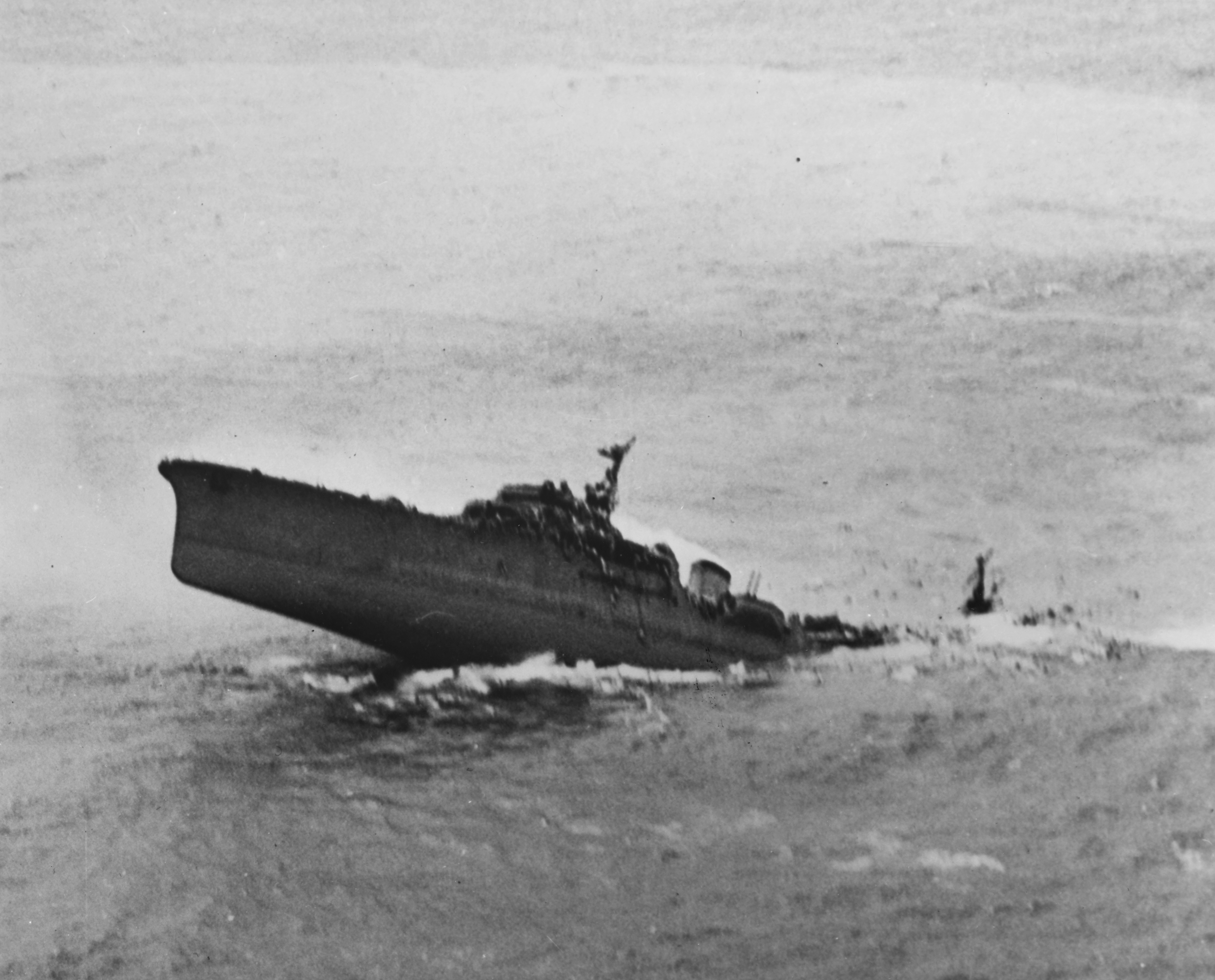 The Japanese cruiser Kashii sinking off the coast of French Indochina after an attack by U.S. Navy carrier aircraft, 12 January 1945. The ship was underway with convoy HI-86 which consisted of 16 ships (four tankers, six cargo ships and six escorts). On 12 January 1945, shortly after departing Qui Nhon Bay, Indochina, bombers from the U.S. Task Force 38 comprising the aircraft carriers Lexington, Hornet, Hancock, Essex, Ticonderoga, Langley and San Jacinto attacked the convoy during the South China Sea raid, sinking most of the convoy's ships. Kashii was hit starboard amidships by a torpedo from a Grumman TBF Avenger, then a Curtiss SB2C Helldiver struck with two bombs aft, setting off the depth charge magazine. Of Kashii's crew, 621 men went down with the ship and only 19 were rescued.